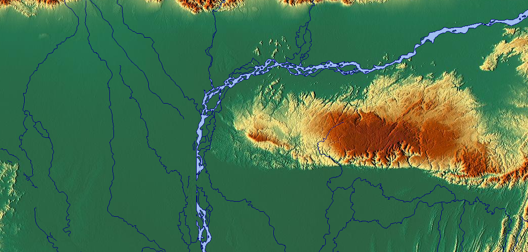 Relief map of the Brahmaputra system